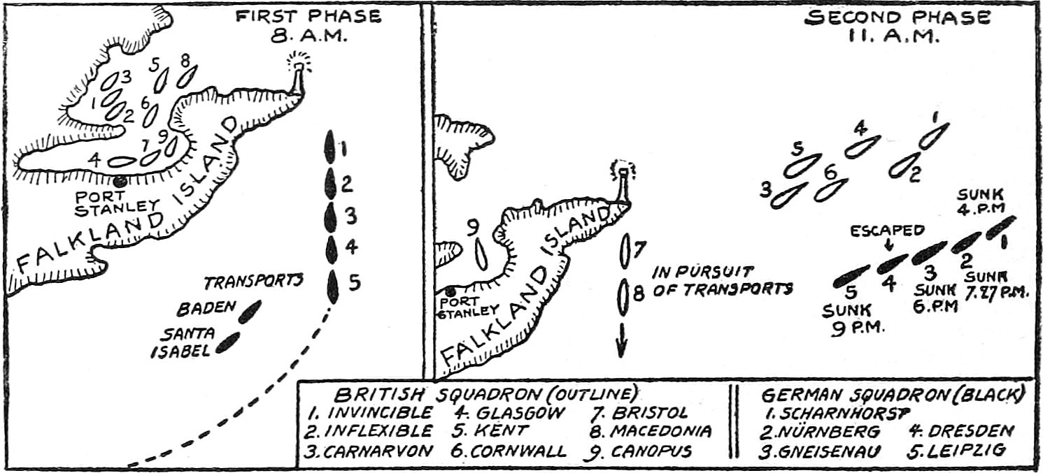 Map of the Battle of Falkland Islands (December 8, 1914) showing battleship positions at two times, 8 a.m. and 11 a.m.